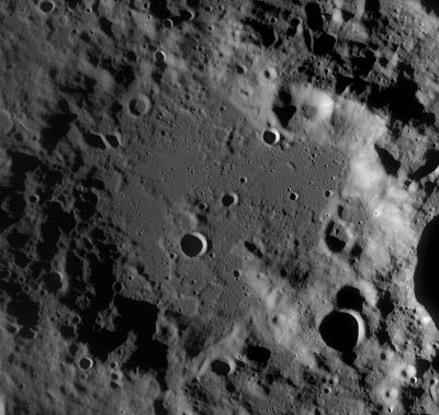 LROC WAC images (No.s M118371012ME and M118350652ME).